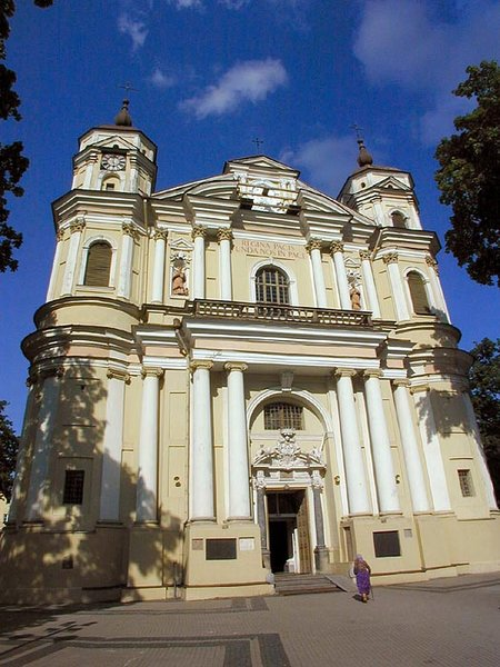 Church of St. Peter and St. Paul in Vilnius